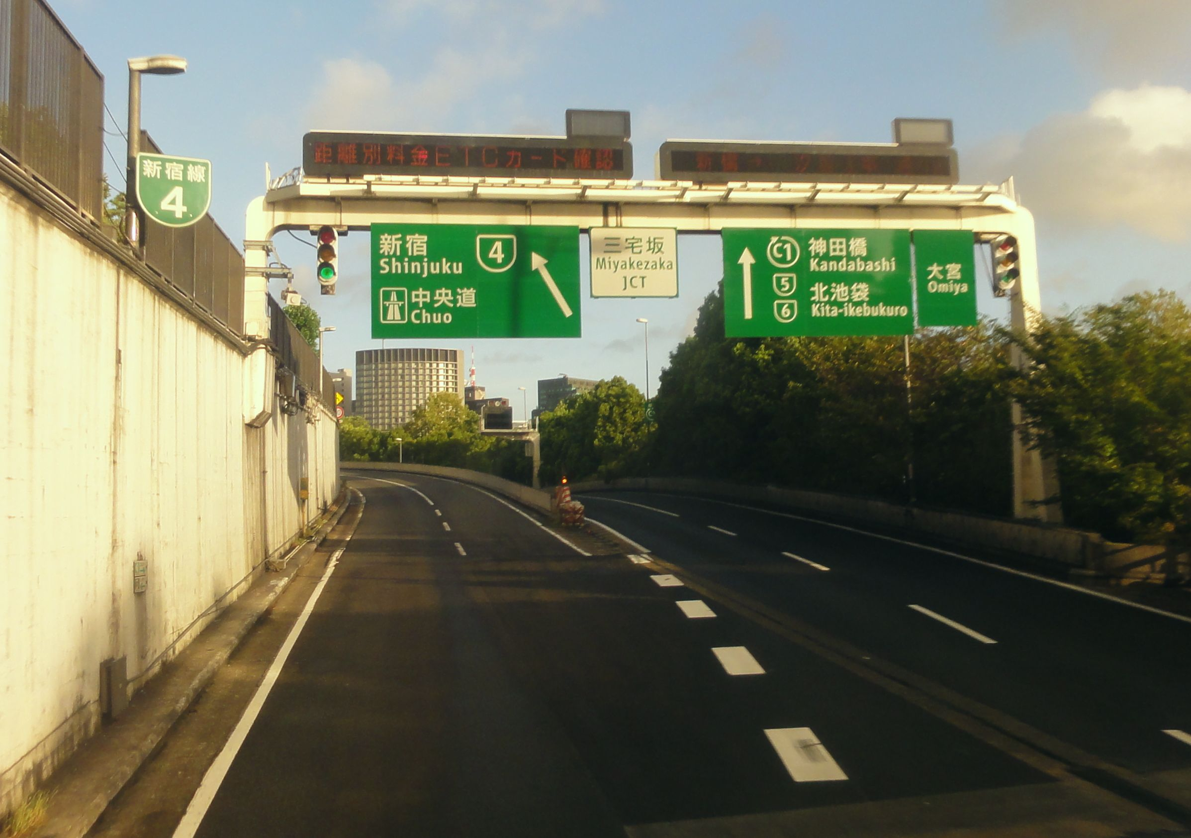 Miyakezaka Junction